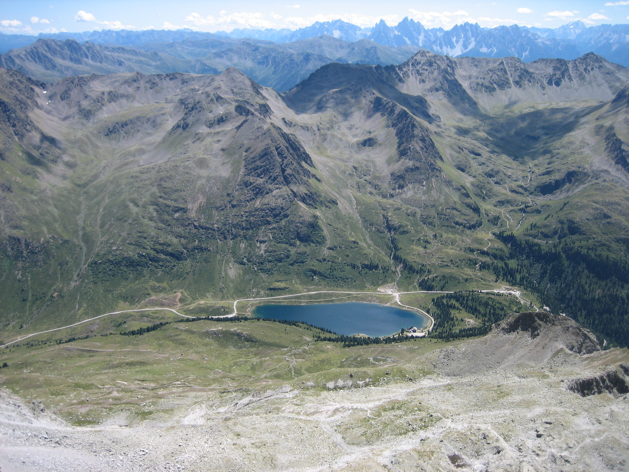 Staller Sattel with Obersee seen from the summit of Almerhorn. Most of the picture shows Austrian territory, Italy is on the right hand side.